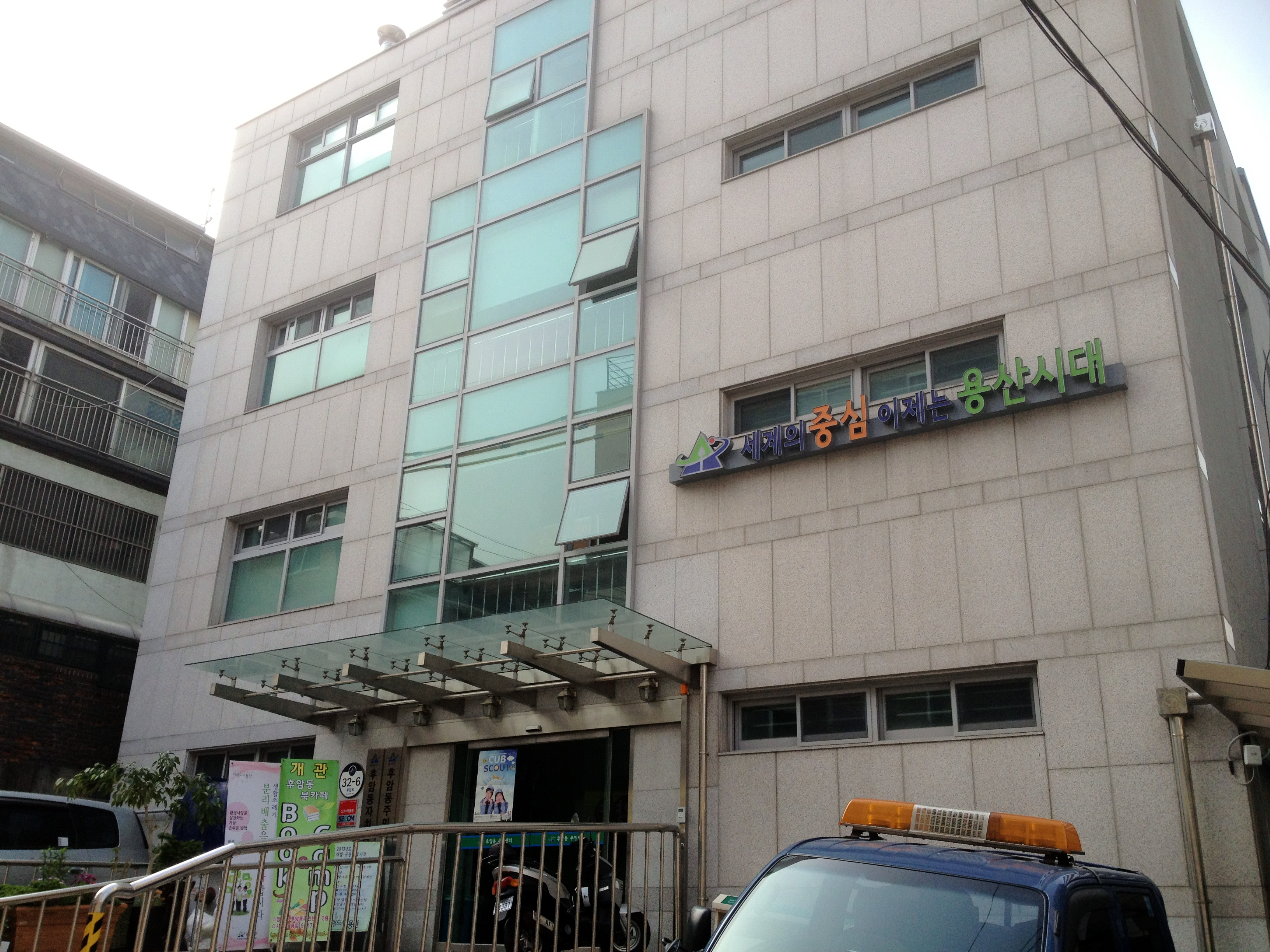 Huam-dong Comunity Service Center(Yongsan-gu)